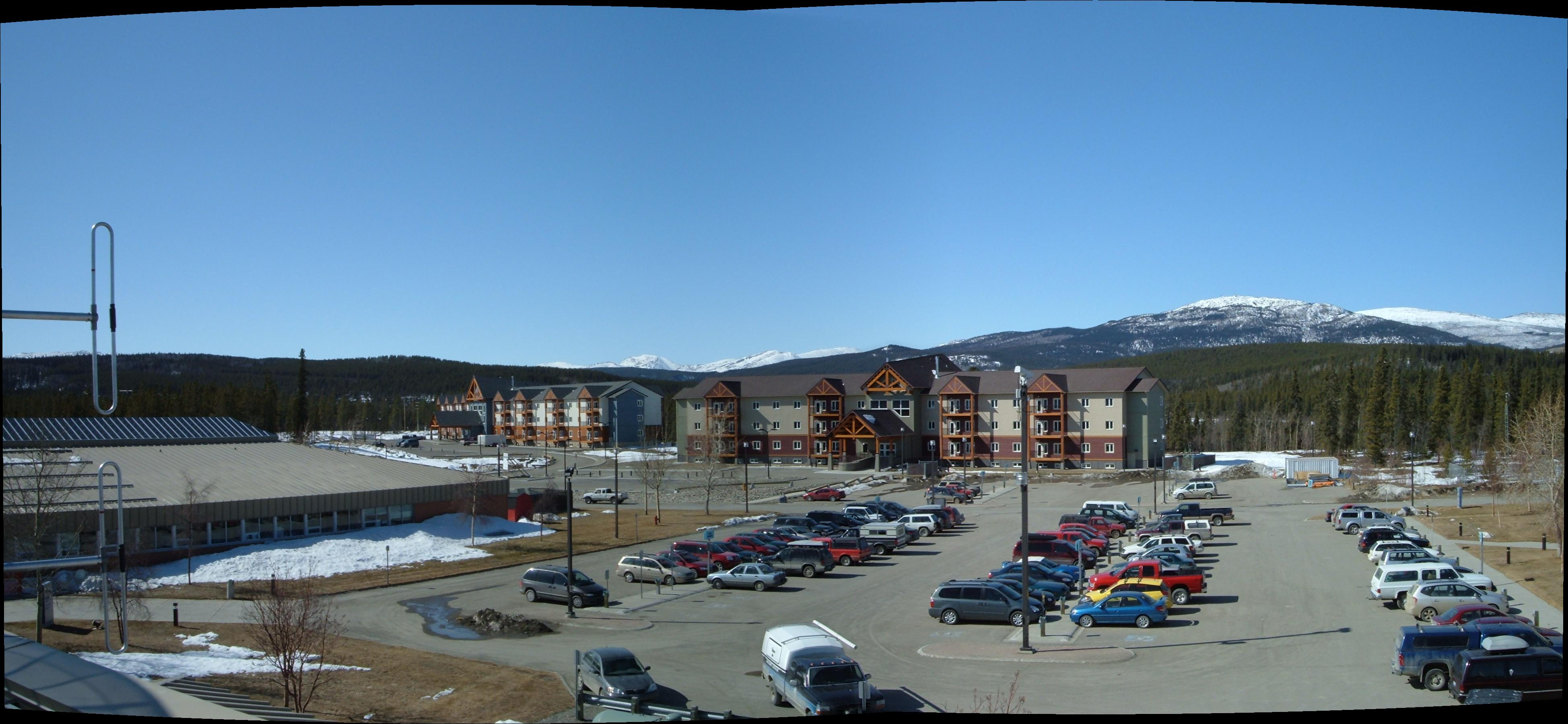 A panorama of three photos taken from the roof of Yukon College looking west. The buildings in the foreground are the residences built for the Canada Winter Games as an athlete's village. The mountain on the right is Haeckel Hill.